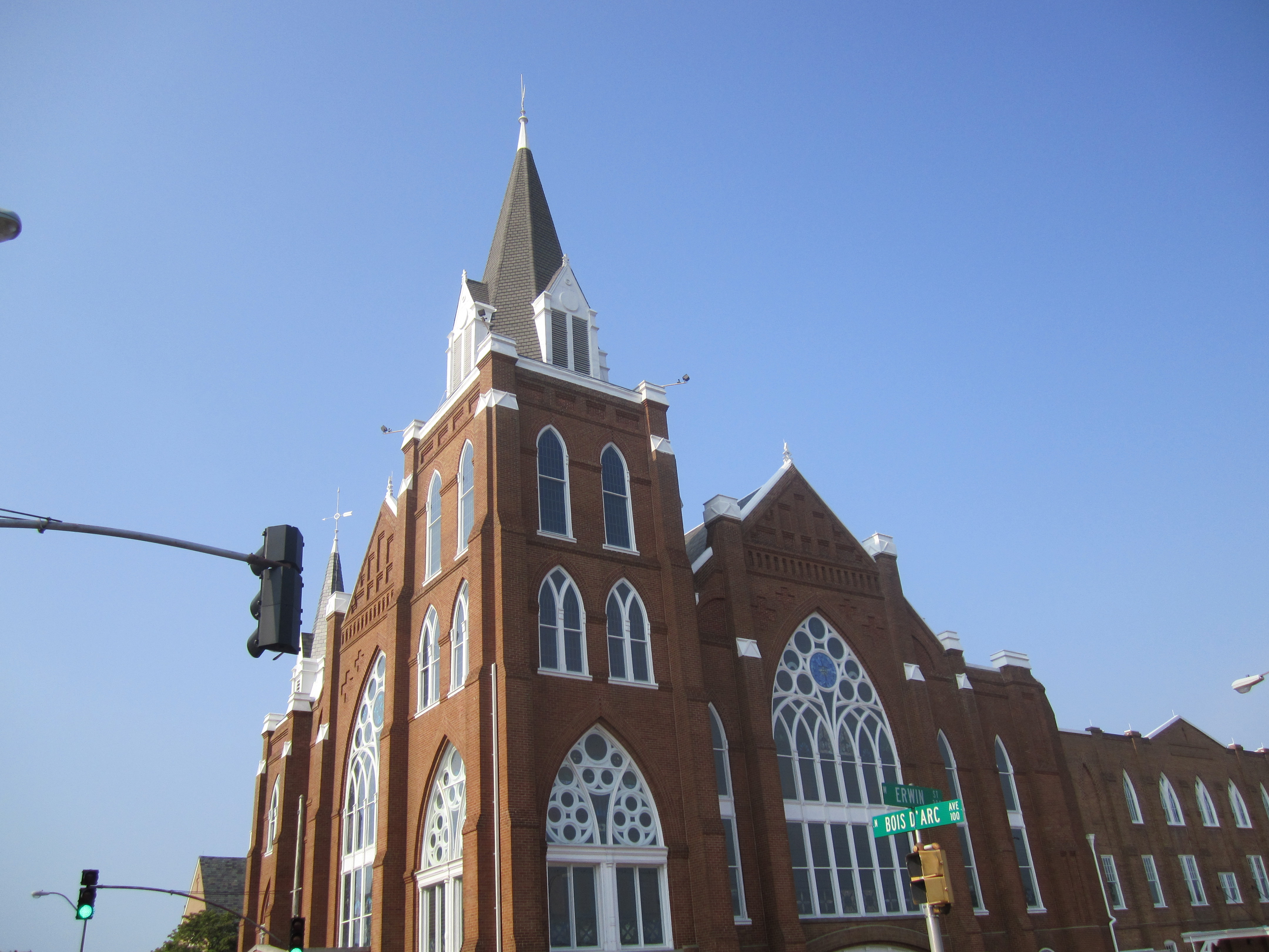 I took photo with Canon camera in Tyler, TX.